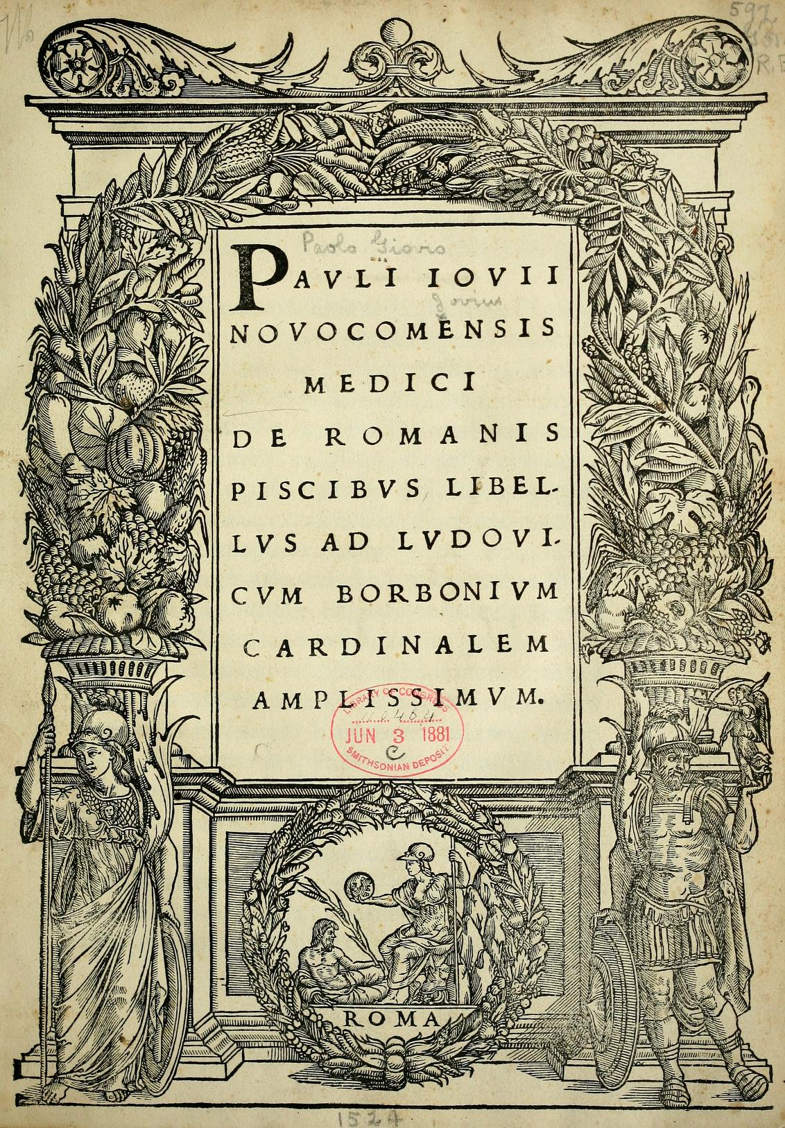 Paulus Iovius, De Romanis piscibus, 1st ed title page. Smithsonian copy